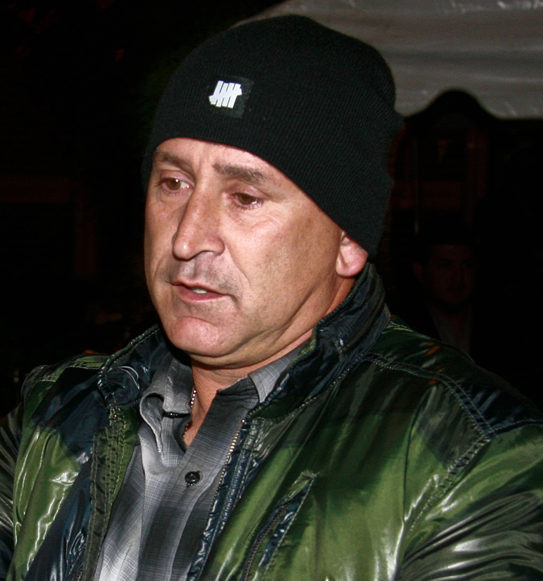 Anthony LaPaglia at the 2009 Toronto International Film Festival.